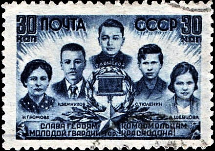 Stamp of the Soviet Union. Left to right: Juliana Gromova, Ivan Zemnukhov, Oleg Koshevoy, Sergei Tyulenin, and Lyubov Shevtsova.